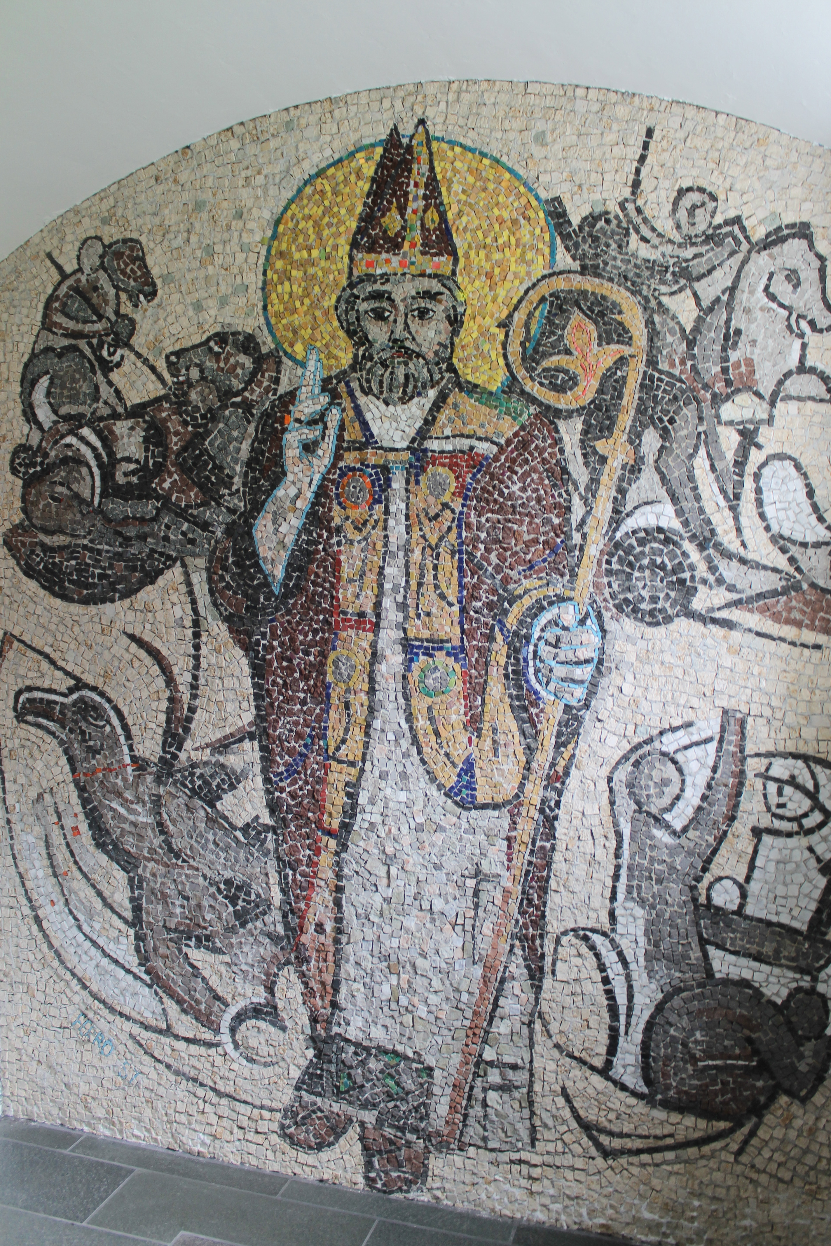 A mosaic on the wall above the grave of Icelandic bishop Jón Arason (c. 1484 - 1550) in the tower of Hólar cathedral, Skagafjörður, Iceland.